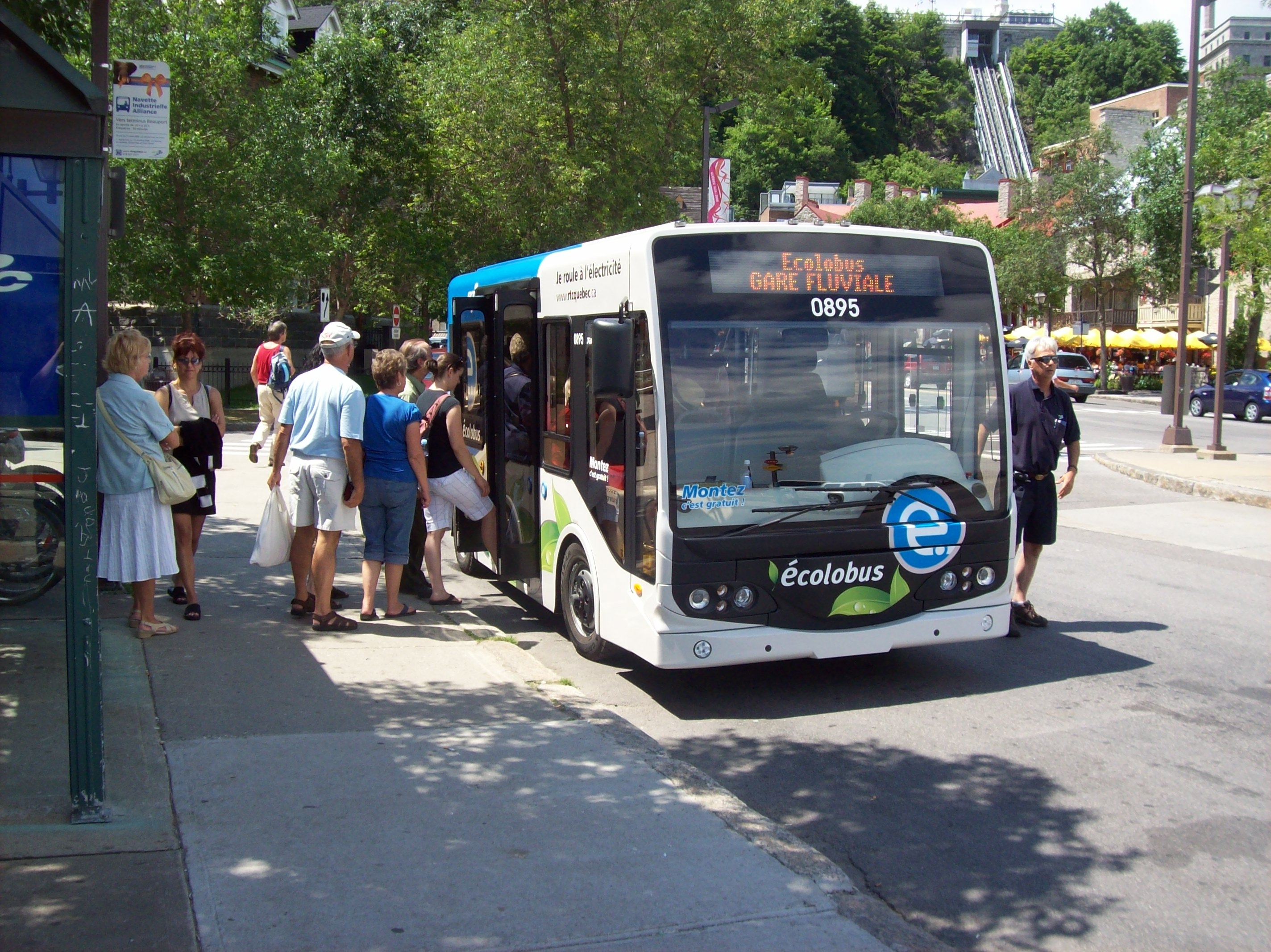 A Tecnobus Gulliver electric bus taking passengers at the Quebec City ferry terminal. The Réseau de transport de la Capitale runs 8 of these buses since 2008.